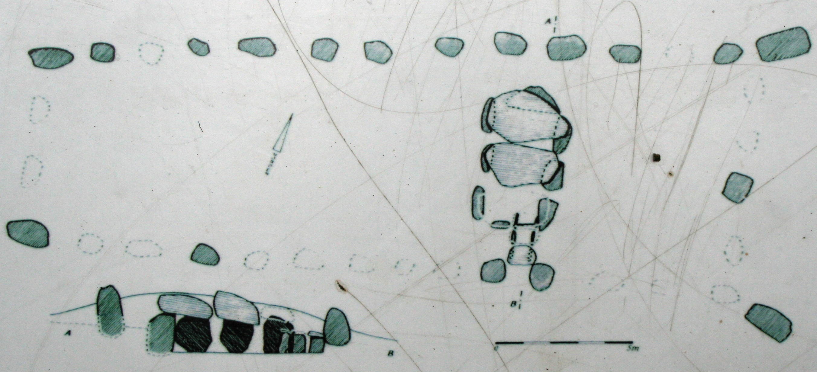 Megalithic tomb Dummertevitz (megalithic tomb "Ziegensteine" ("Goat stones"))